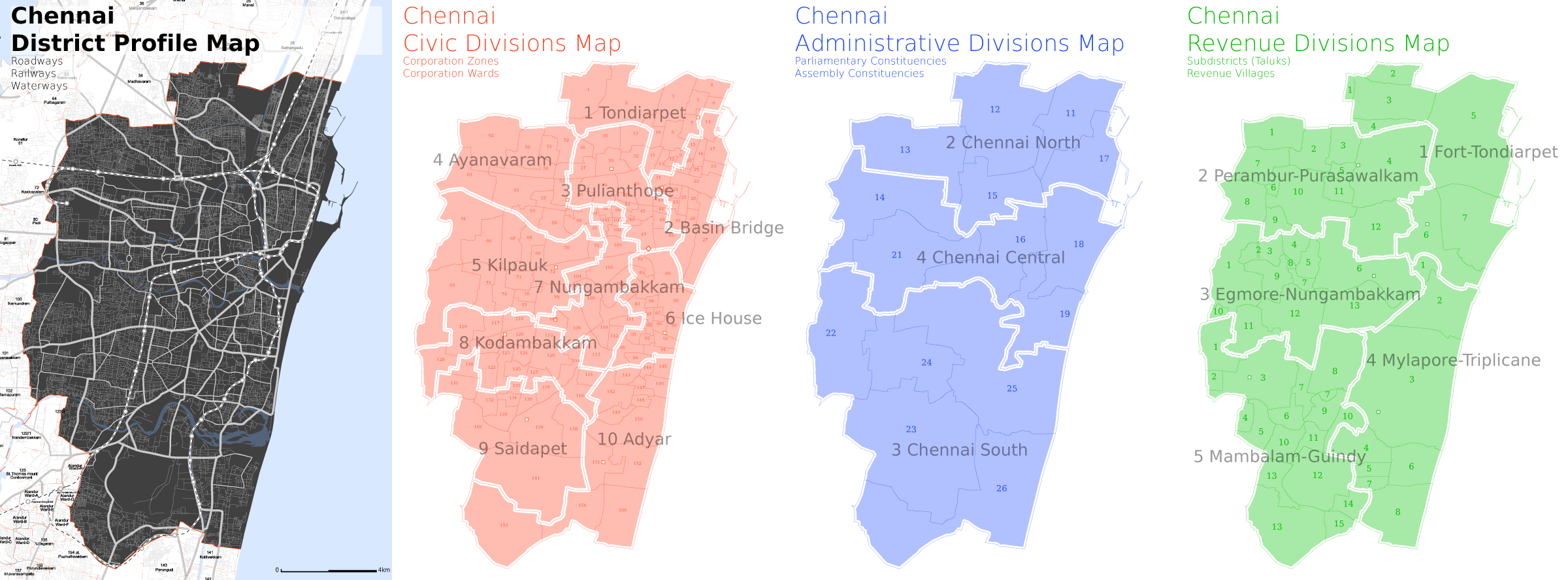 Map of Chennai district with civic divisions, administrative divisions and revenue divisions